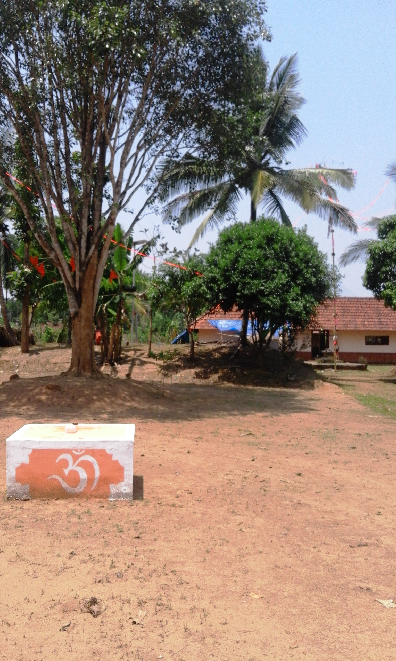 Wayanad District, Kerala province, India